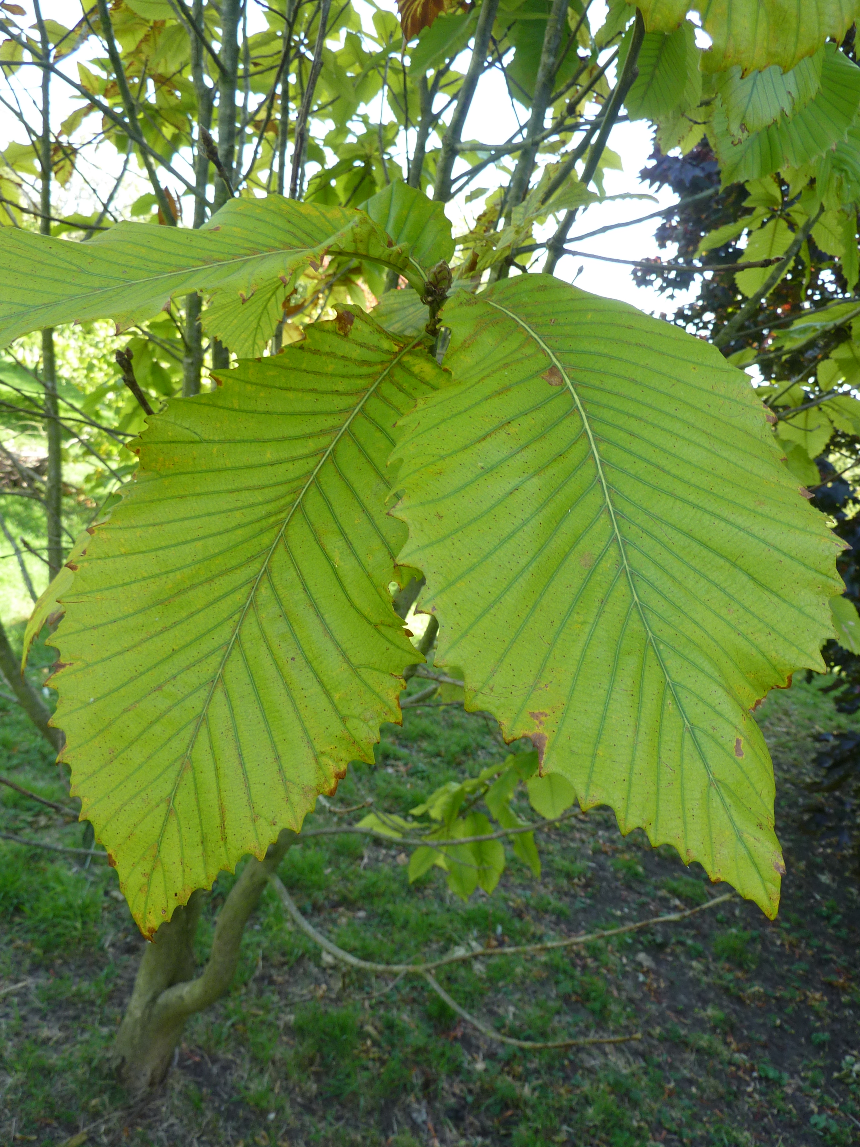 Armenian Oak (Quercus pontica) of the family Fagaceae